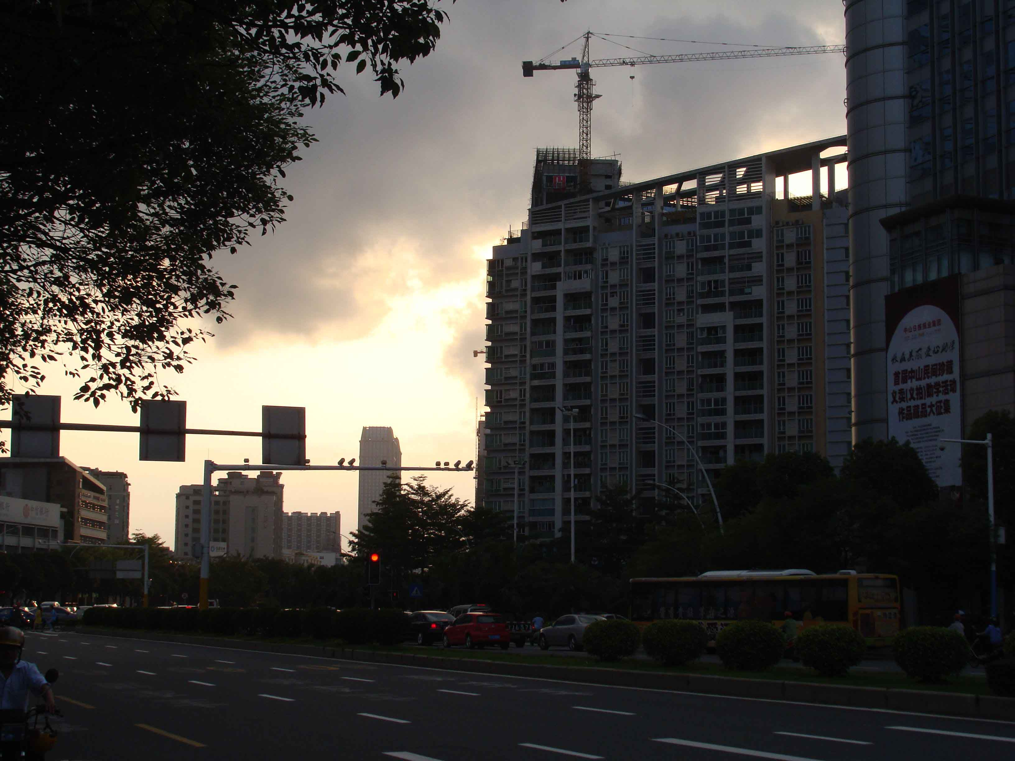 zhongshan dongqu (east district)